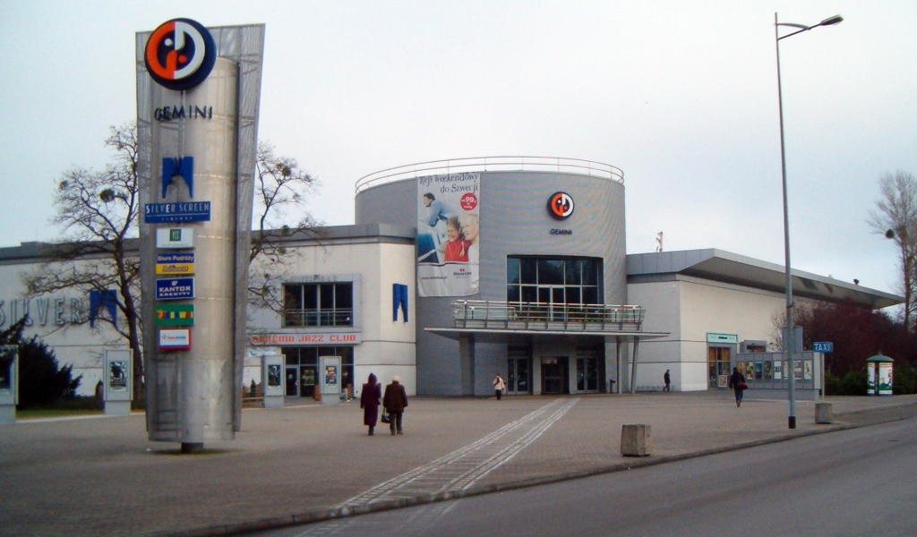 Silver Screen Gdynia.